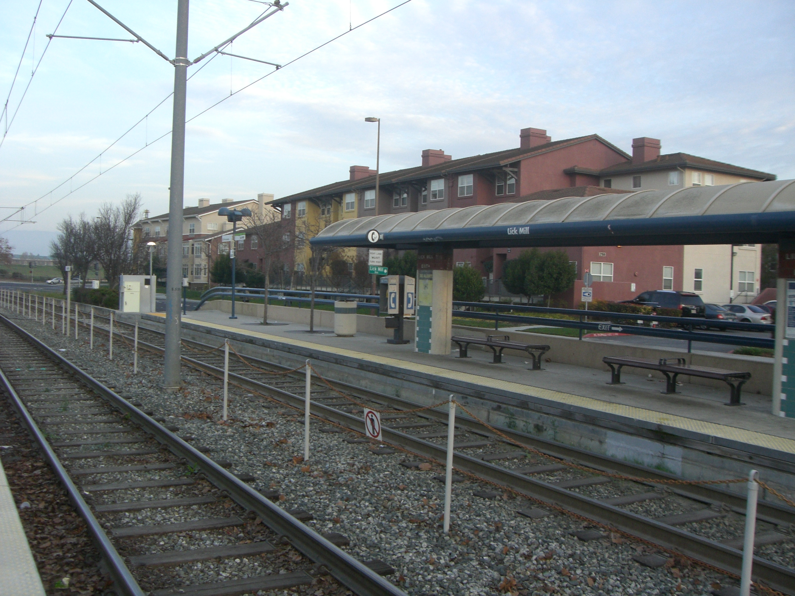 Lick Mill VTA Station, view from the platform heading towards Mountain View of the platform for trains to Winchester